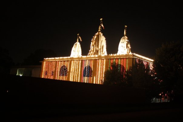 Swaminarayan temple at Chicago decorated for a festivity